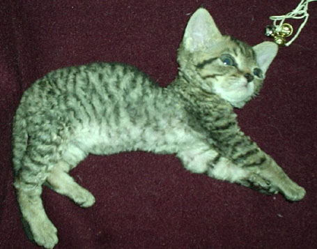 Rex kitten with FCKS and Kyphosis